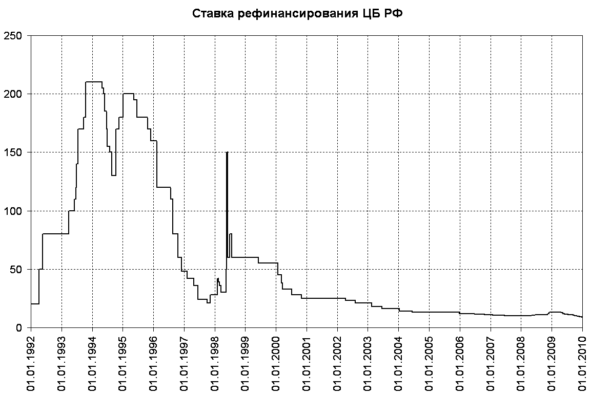 Discount rate set by Central Bank of Russia in 1992-2009